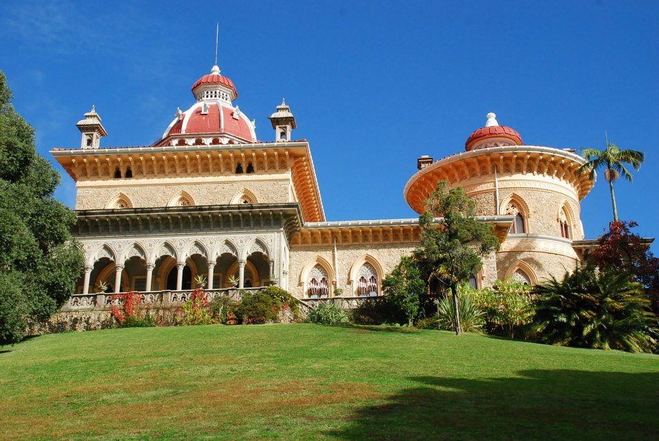 Long Shot of Palácio de Monserrate, Sintra, Portugal